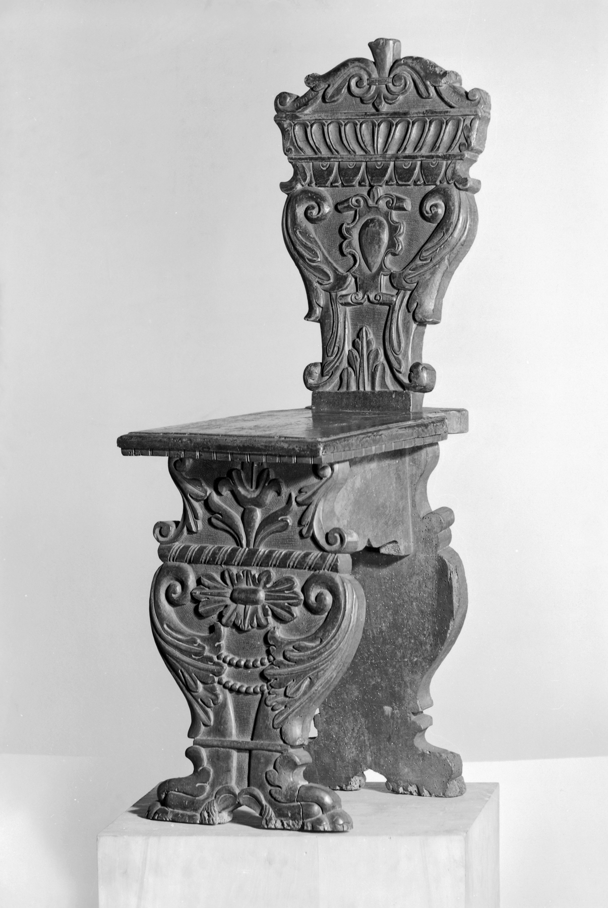 "Sgabello" is the Italian word for stool.